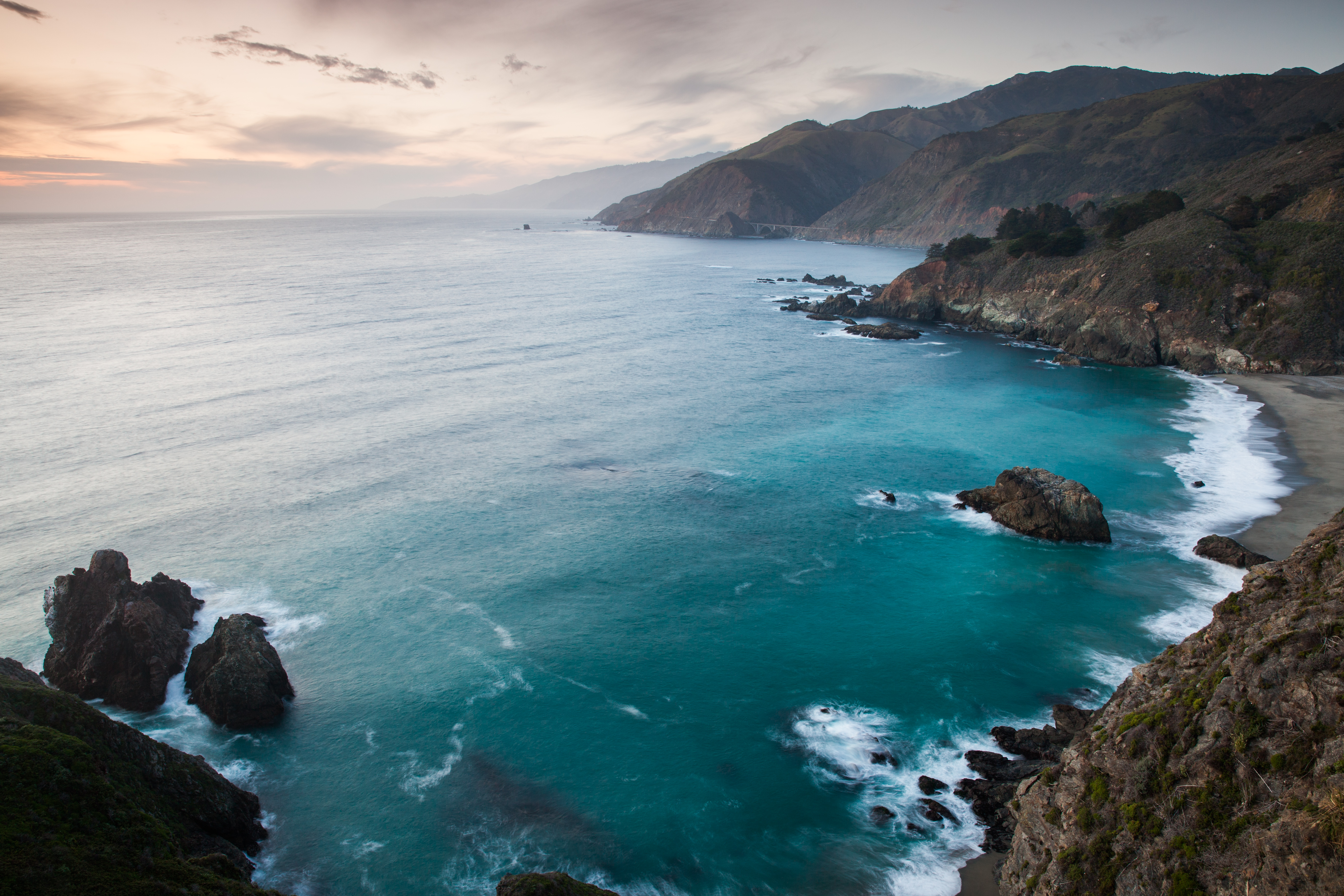 Landels Hill Big Creek Reserve from Gamboa Point, Cabrillo Highway, CA (California Coastal National Monument CCNM)